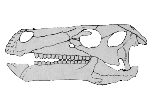 Skull of Theiophytalia (previously thought to belong to Camptosaurus), an ornithopod dinosaur (this version, based on Gilmore 1909, uses parts named Theiophytalia kerri by Brill and Carpenter, 2006).